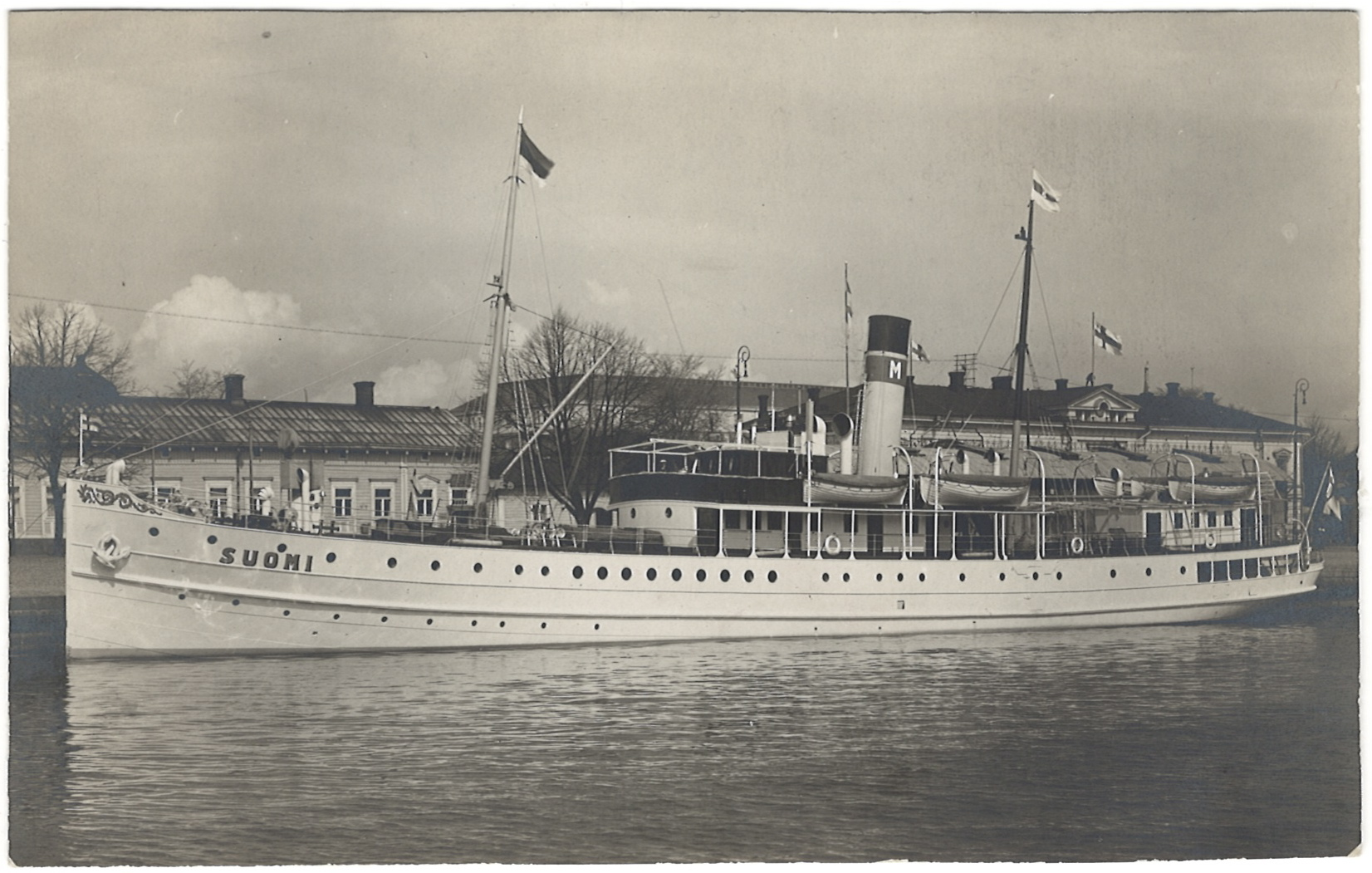 Steamship Suomi in the 1930s